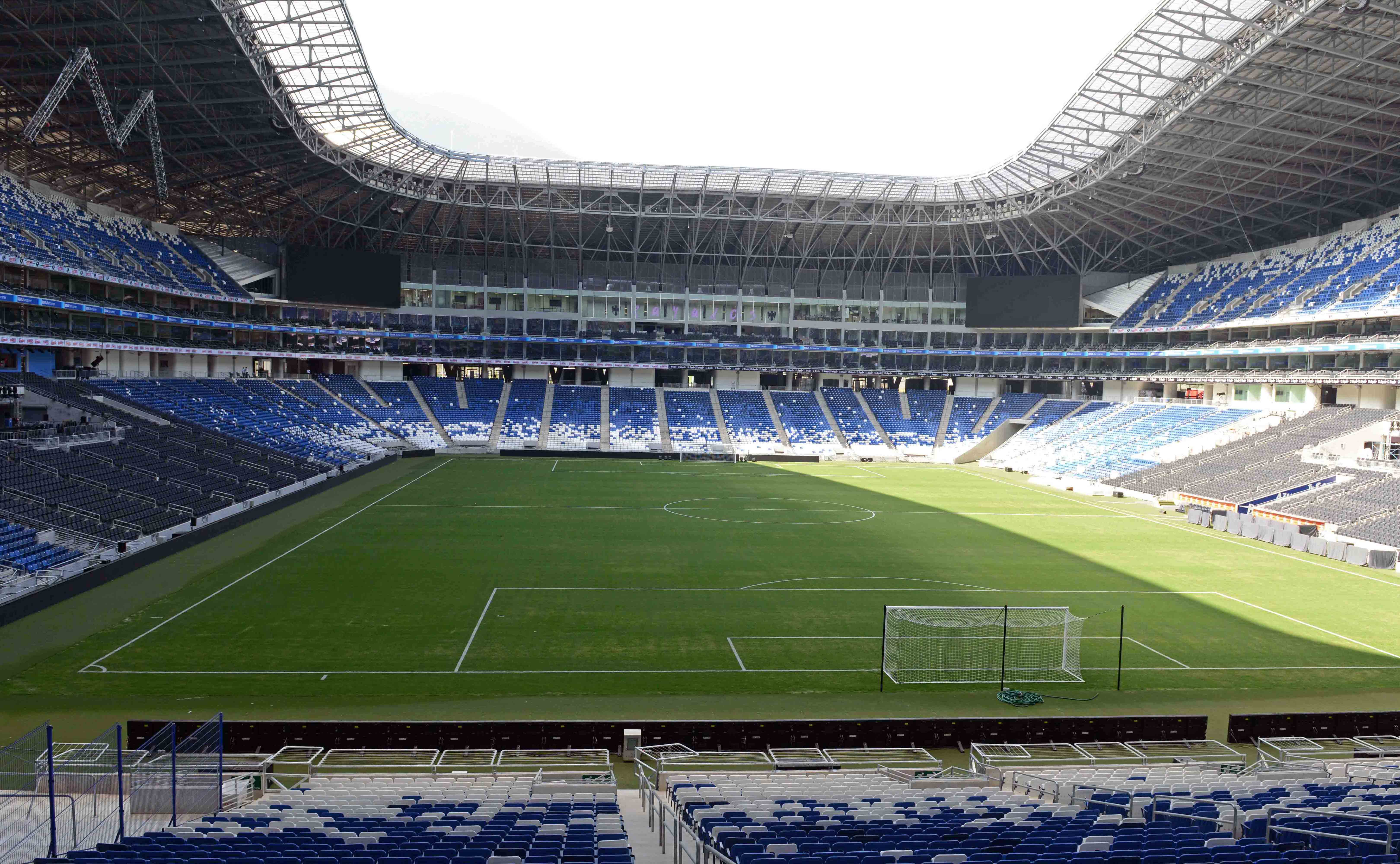 Estadio BBVA Bancomer Inauguration